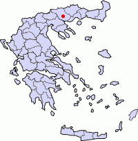 locator map, based on Image:Prefectures Greece grey.png